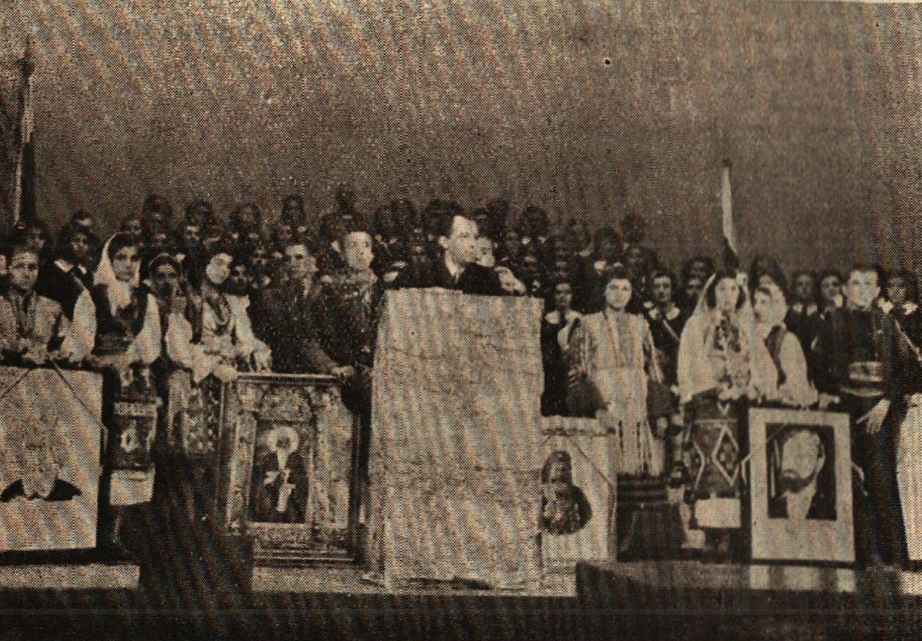 Skopje National Theatre